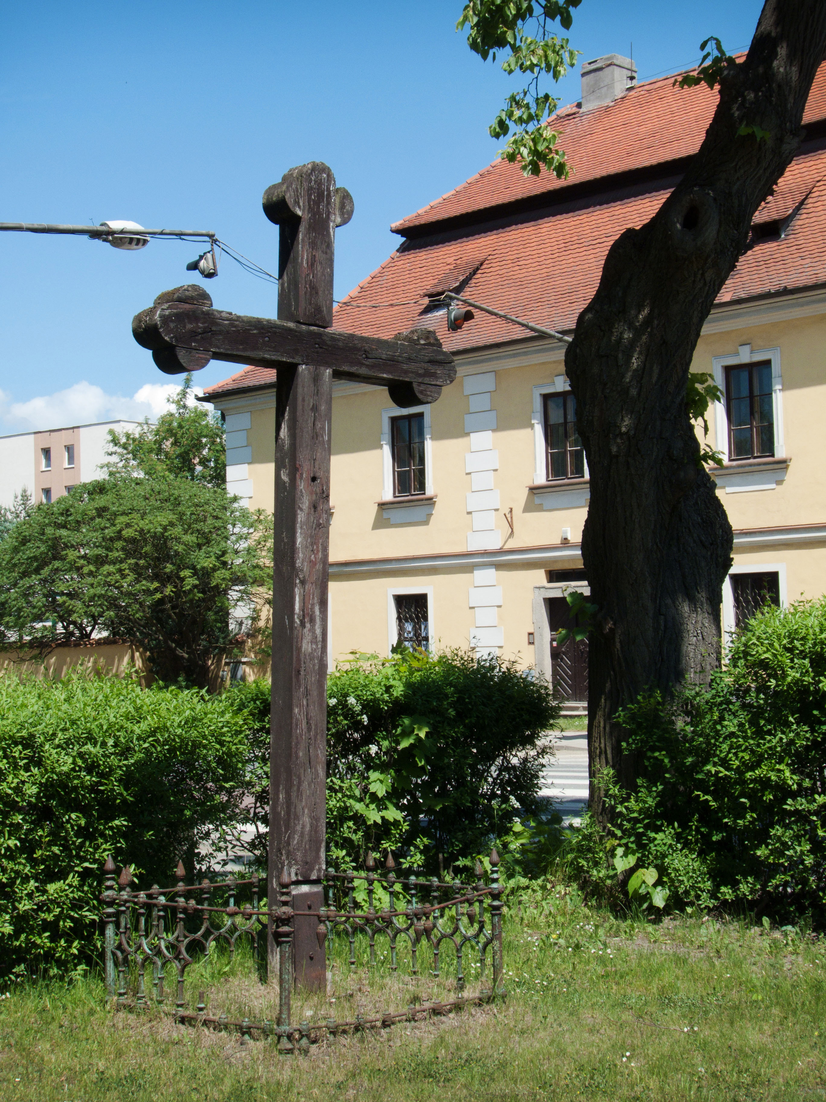 Cross at Saint Wenceslaus Church in the town of Planá nad Lužnicí|Planá nad Lužnicí, Tábor District, Czech Republic, with the local rectory at the back.